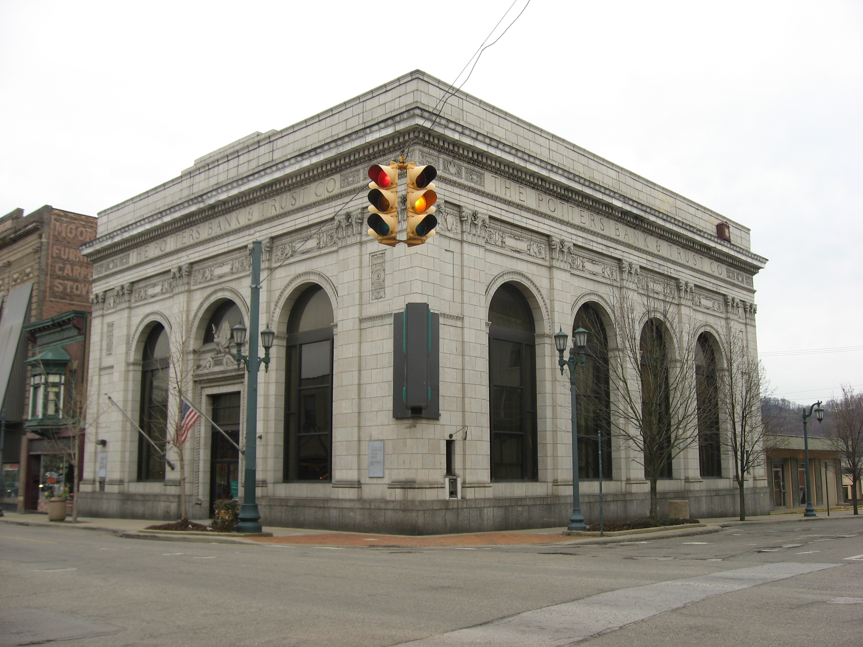 Front and side of the Potters National Bank, located at the intersection of Fifth and Washington Streets in downtown East Liverpool, Ohio, United States. The bank is a contributing property to two historic districts that are listed on the National Register of Historic Places: the East Liverpool Downtown Historic District and the East Fifth Street Historic District.